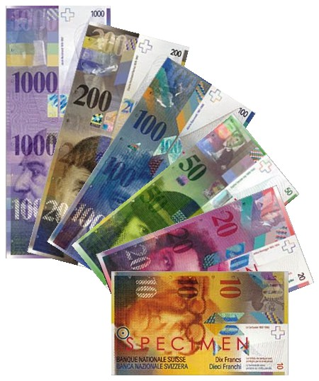 Various CHF banknotes